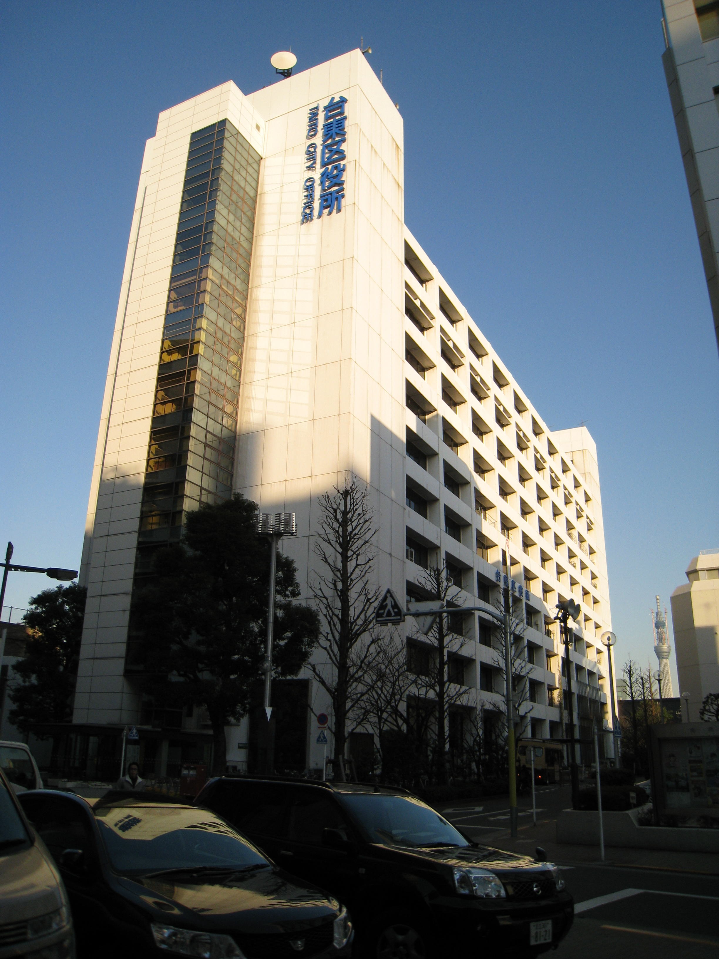 Taito City Office